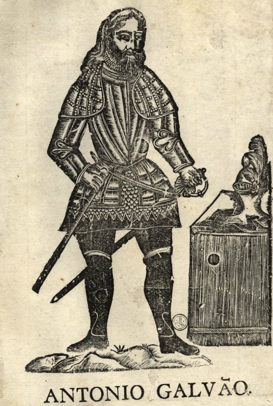 Engraving depicting Antonio Galvano (c. 1490–1557), a Portuguese soldier, chronicler and administrator in the Maluku islands, and a Renaissance historian.